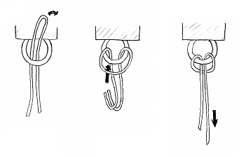 Cow Hitch knot, drawn by Matthew Gates, 2004